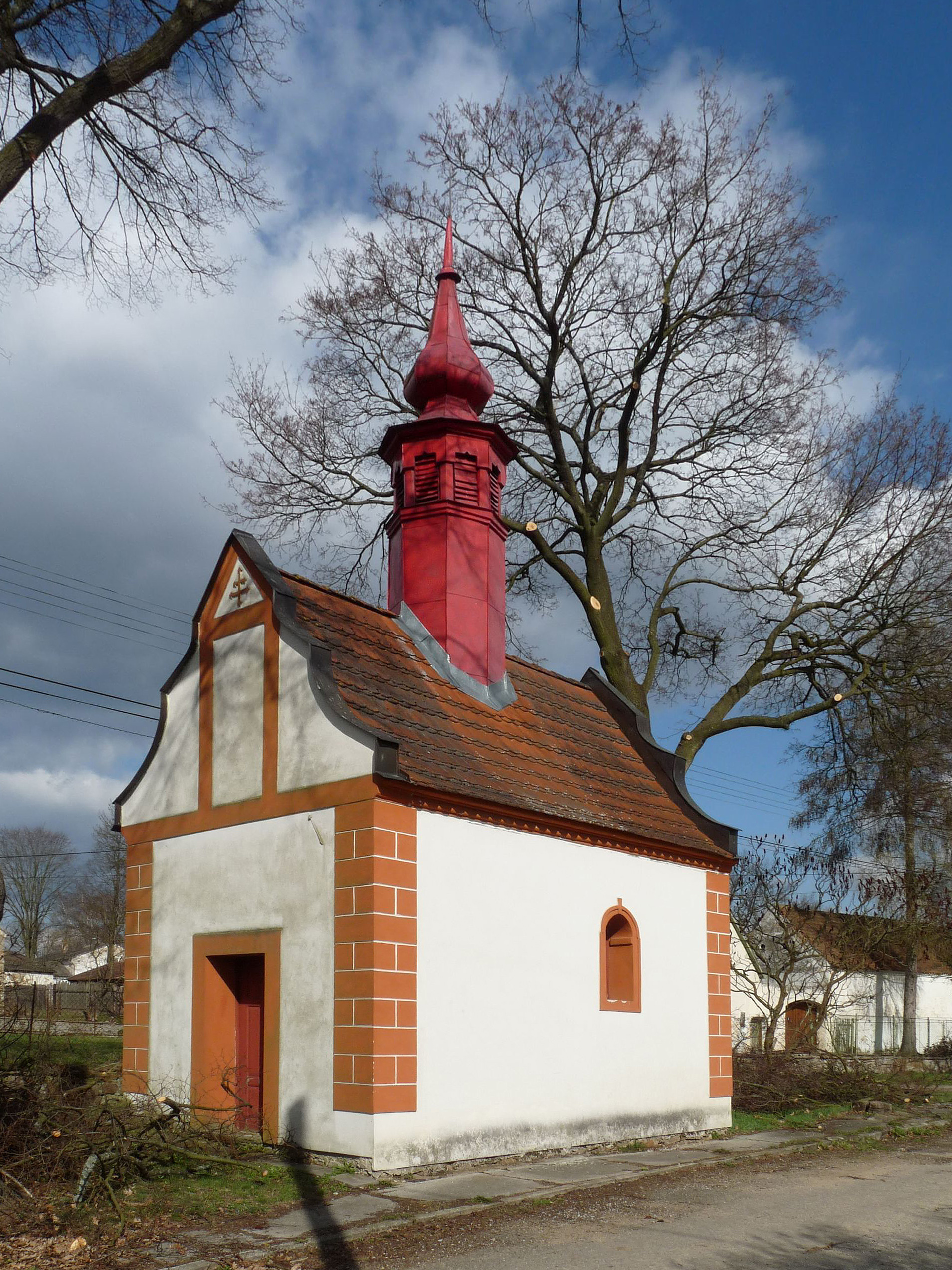 Chapel in the village of Pohoří, Jindřichův Hradec District, Czech Republic.